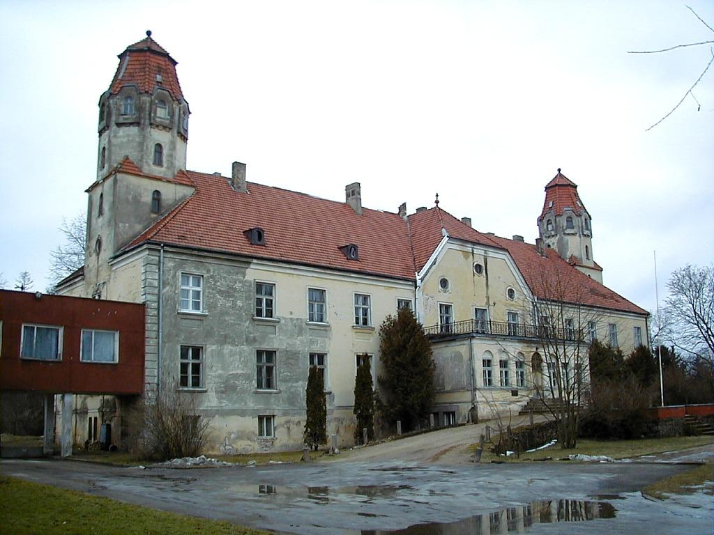 Suntaži Manor